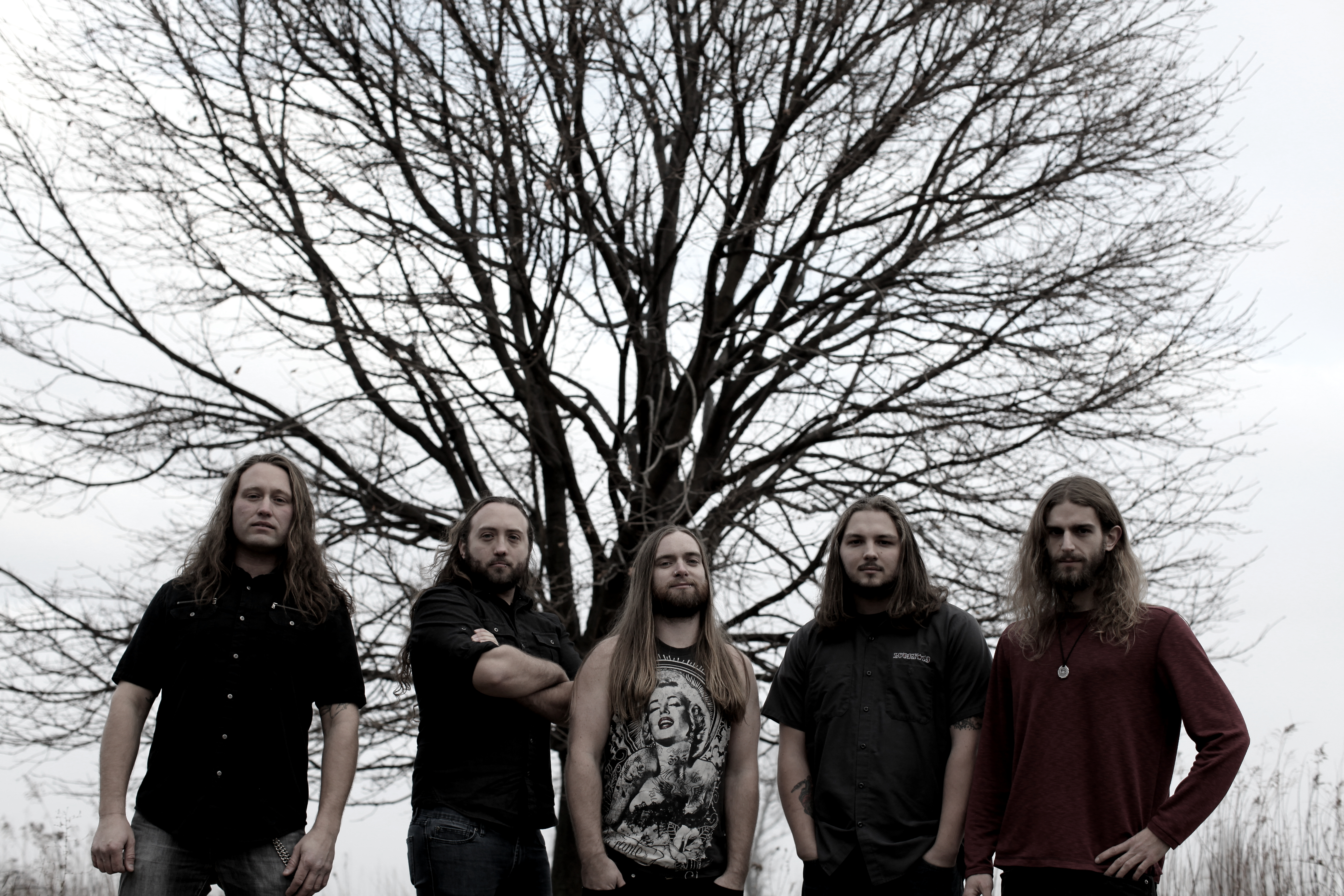 Press Photo from Calisus